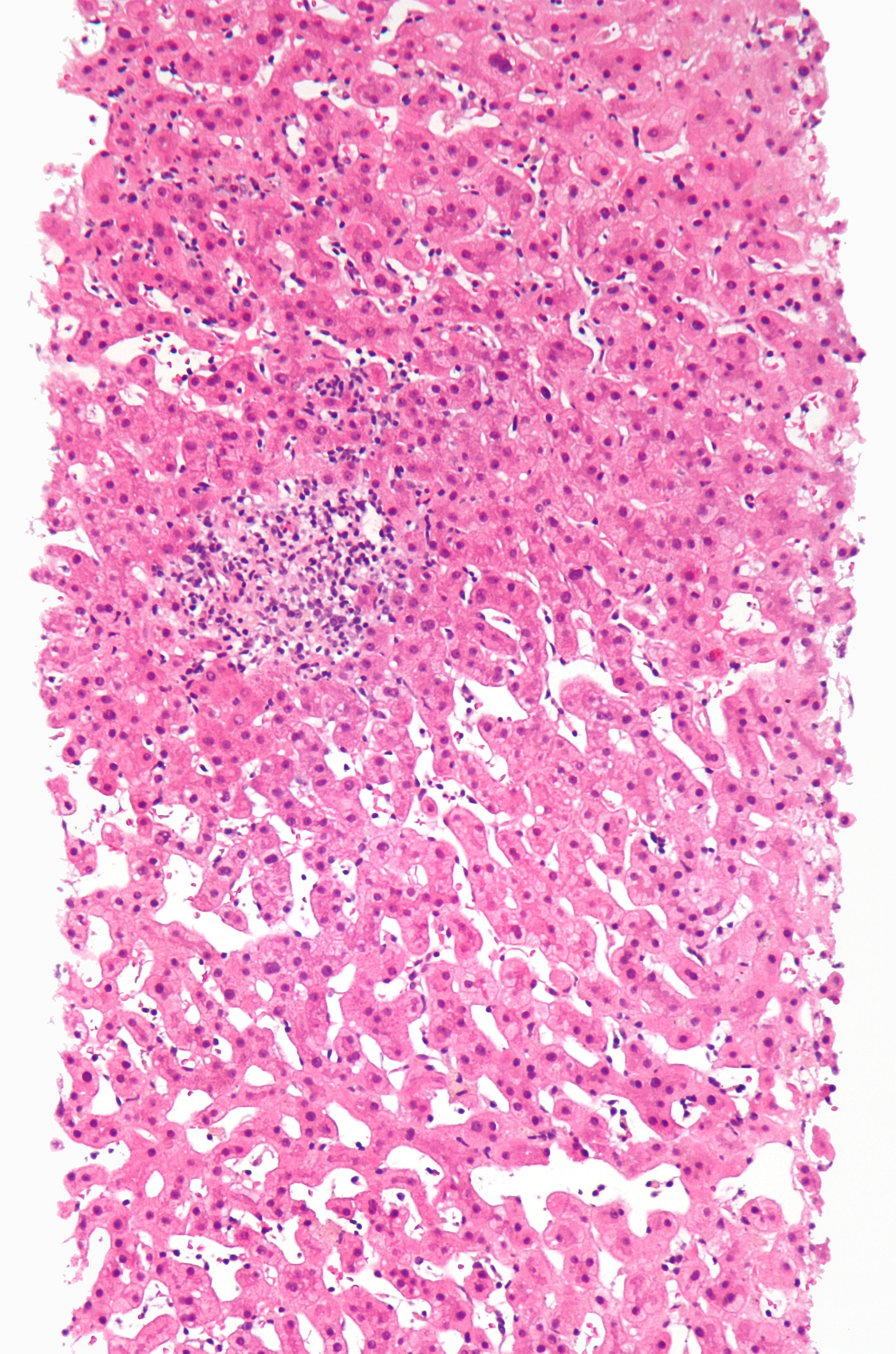 Low magnification micrograph of an adverse drug reaction leading to a hepatitis, also known as drug-induced hepatitis, with non-caseating granulomata. Liver biopsy. H&E stain. Related images Low mag. Intermed. mag. High mag.